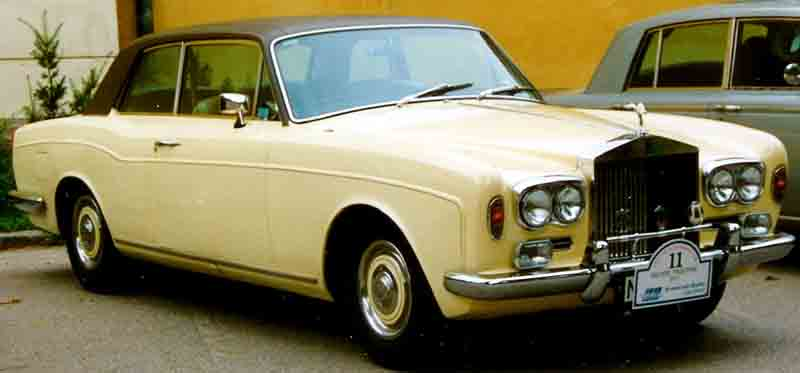 Rolls-Royce Corniche